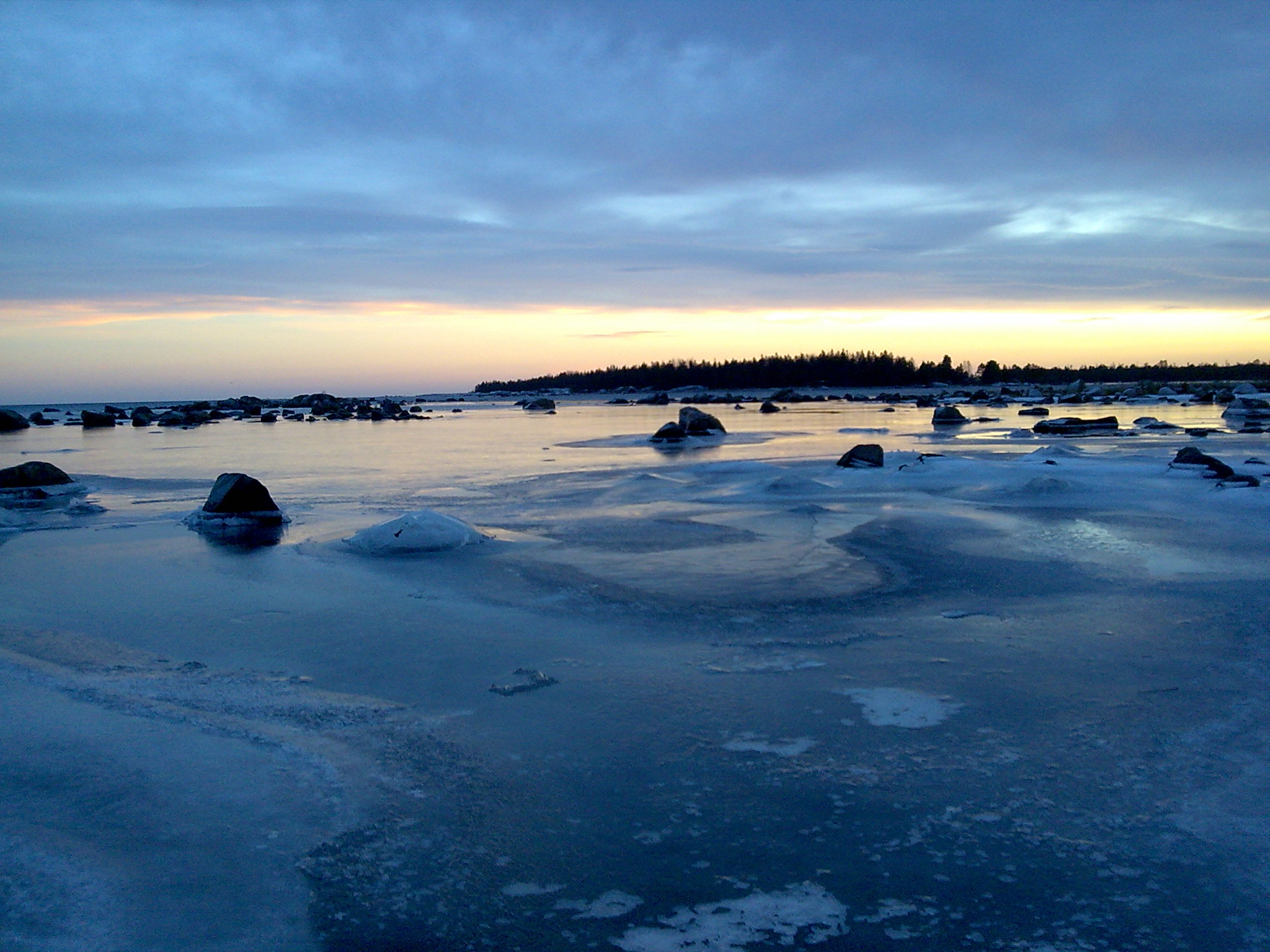 Sunset in vallvik, Christmas 2007.